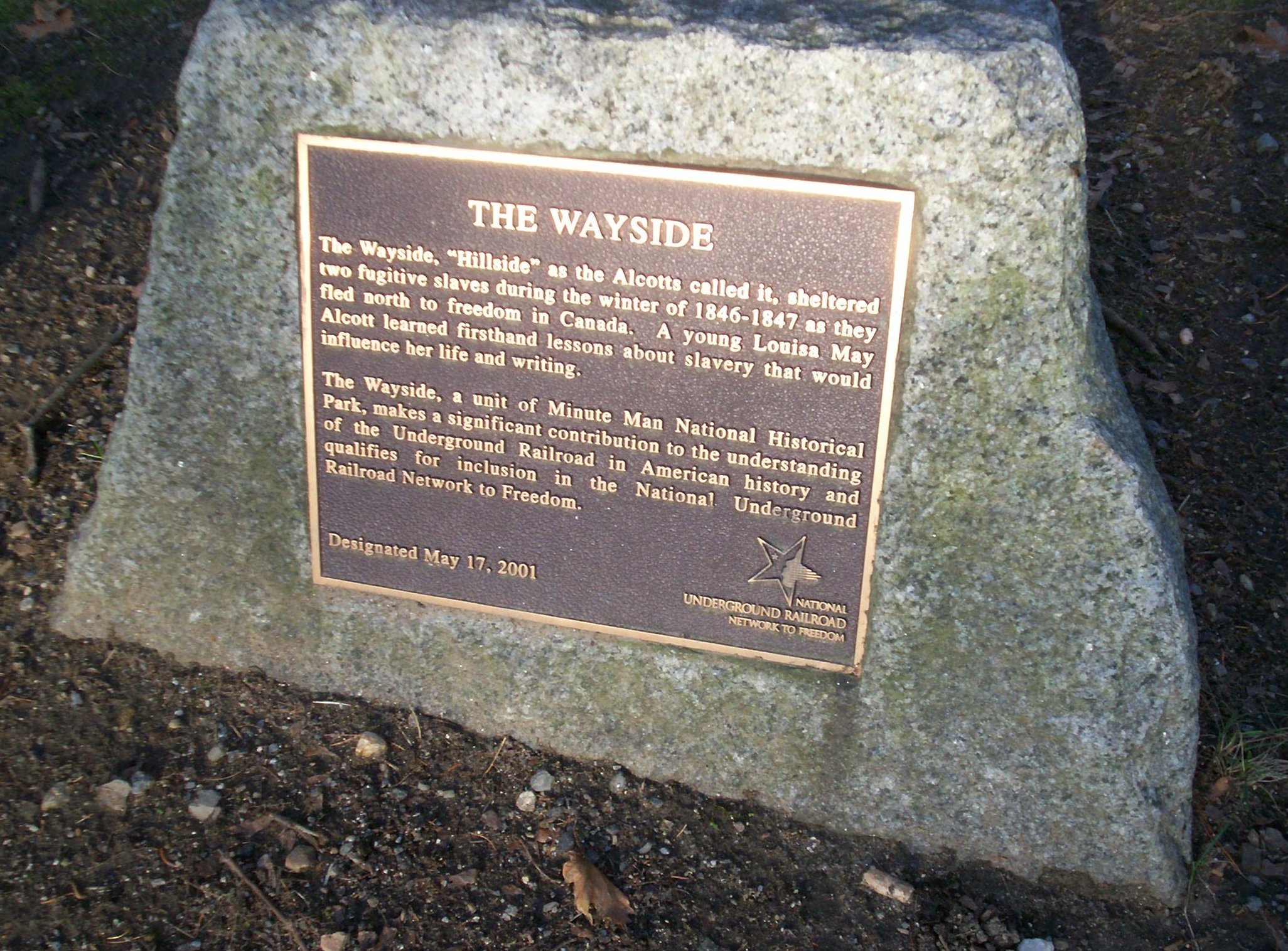 The Wayside (Concord, Massachusetts) - former home of the Alcott family, the Hawthorne family, and the Lothrop family - is designated part of the Underground Railroad Network to Freedom, as marked by this plaque. The stone is close to the sidewalk, just outside the pathway that leads to the historic barn/visitor center.